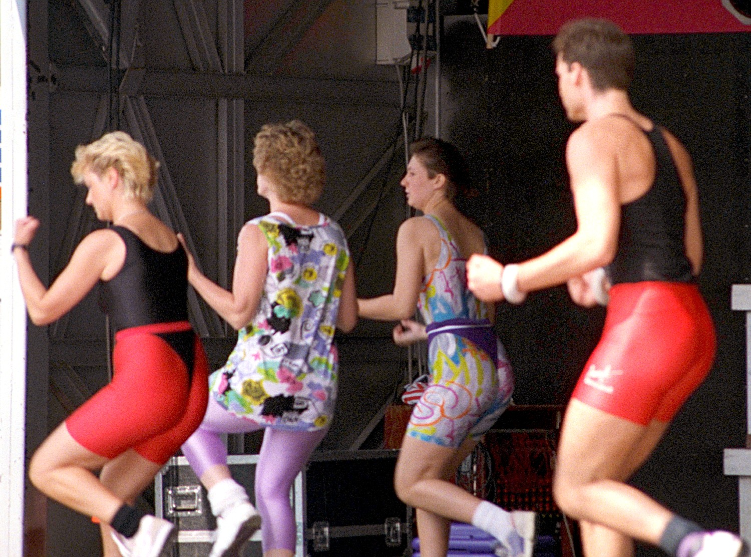 A public demonstration of aerobic exercises